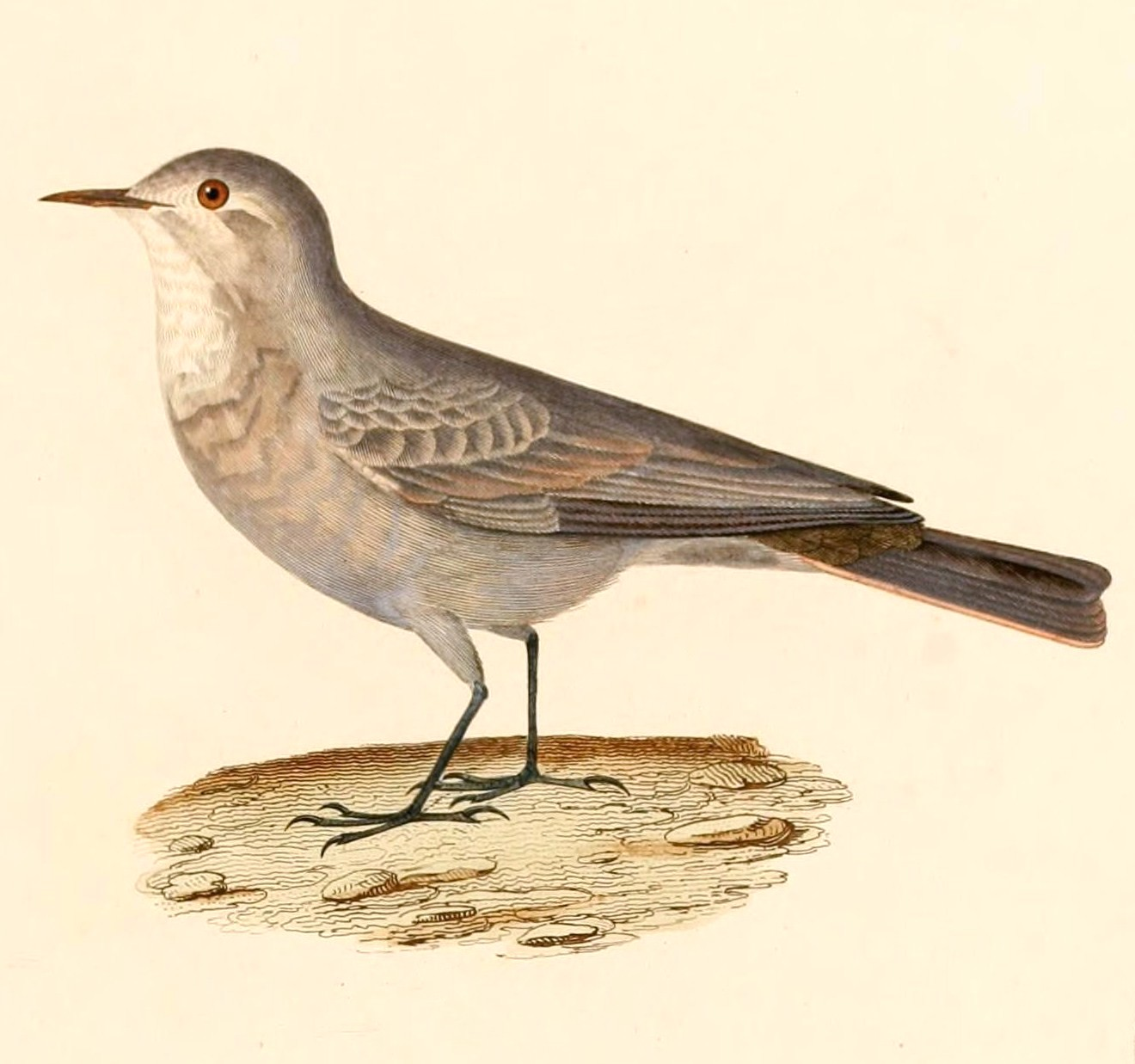 « Certhilanda maritima » = Geositta maritima (Greyish Miner)